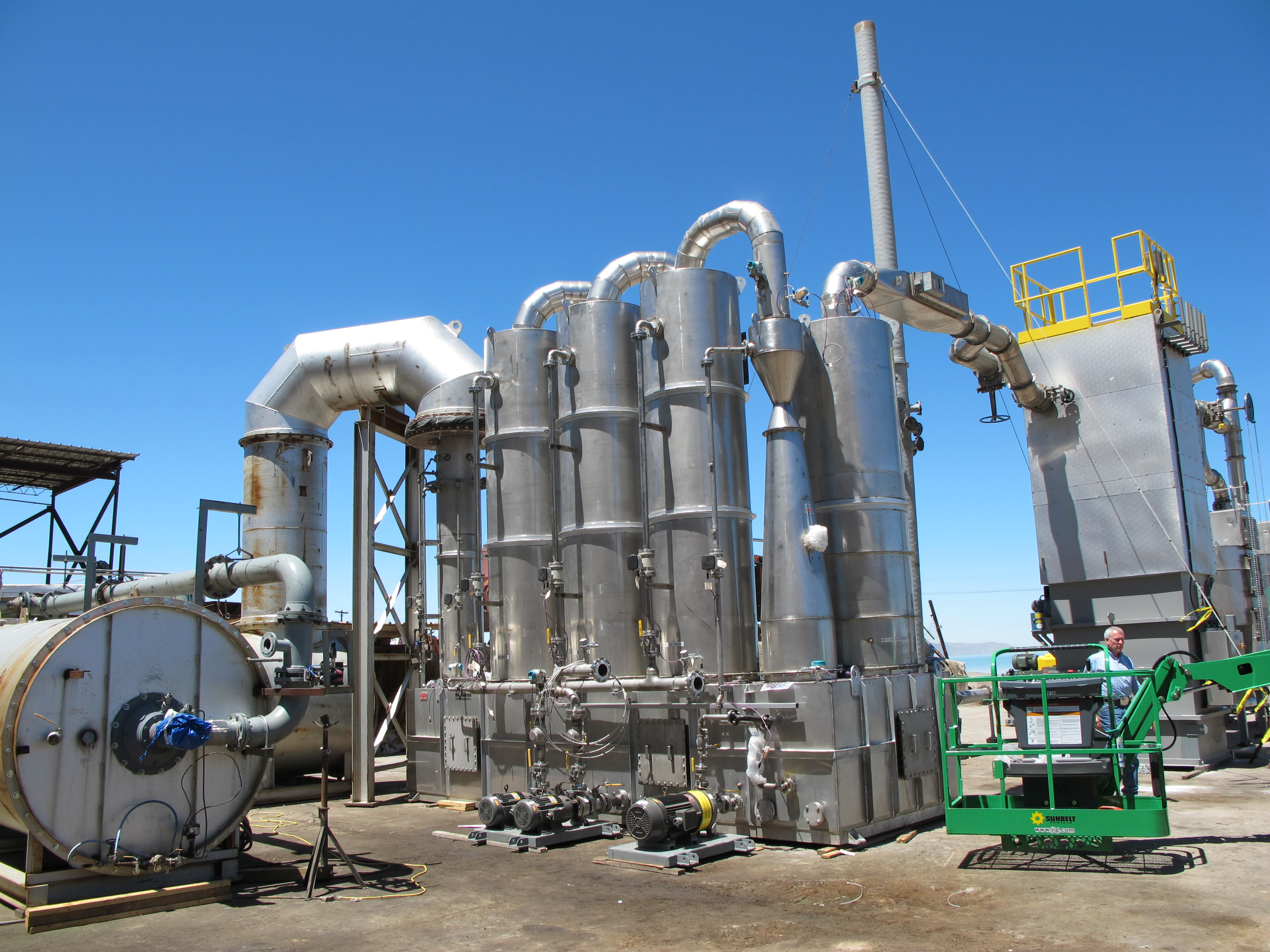 The Area Ten Liquid Incinerator (ATLIC) and its pollution abatement system were initially constructed at Brahma Construction Company’s (URS subcontractor) Lakepoint facility. This allowed the equipment to be tested prior to installation at the Deseret Chemical Depot to ensure the system was operating efficiently.